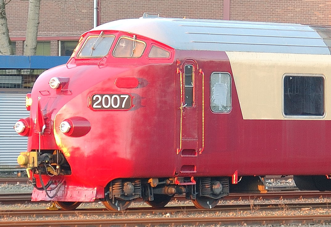 Former TEE coach 1984-4, owned by Stichting TEE Nederland, back in the old red livery of 1957 at the station of Zwolle, the Netherlands